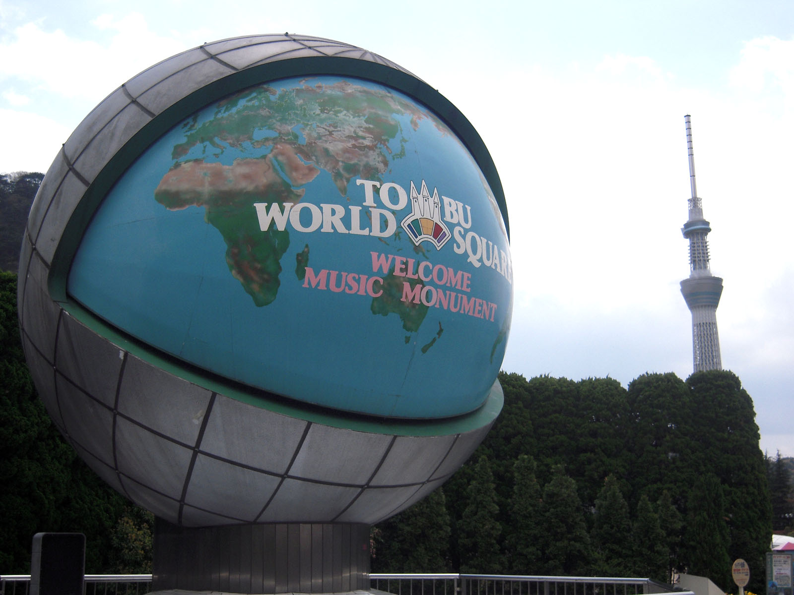 The entrance monument and the 1/25 scale miniature Tokyo Sky Tree in Tobu World Square(Tochigi pref, Japan).